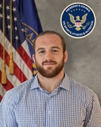 Kyle Snyder, Olympic Gold Medalist and Two-Time World Champion in Wrestling